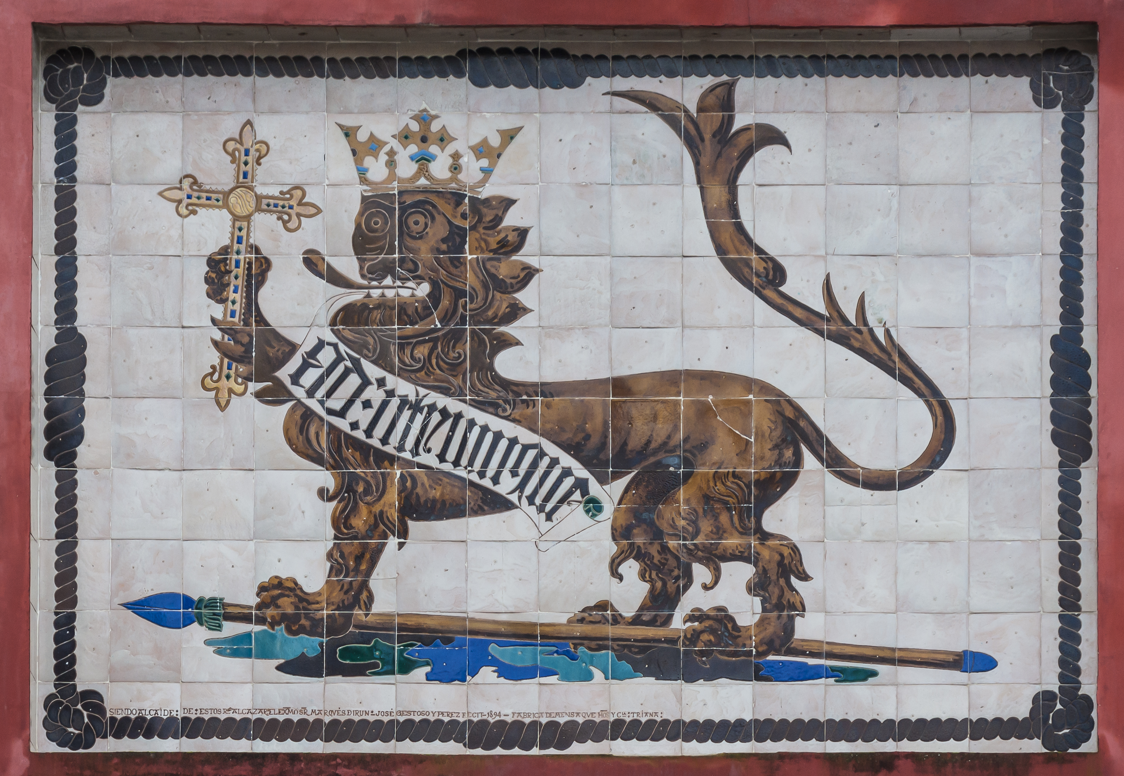 Sevilla, Spain: An Azulejo in the Alcázar of Seville, made in 1894